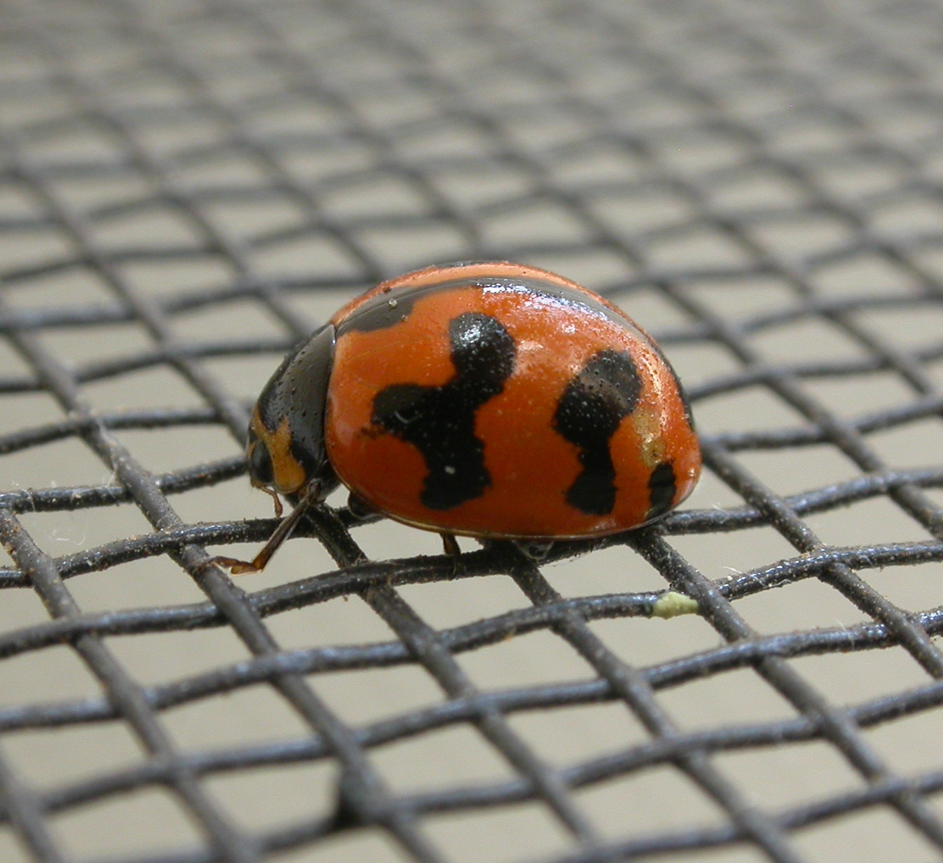 Coccinella transversalis (Fabricius), Aranda, ACT, 27 October 2008